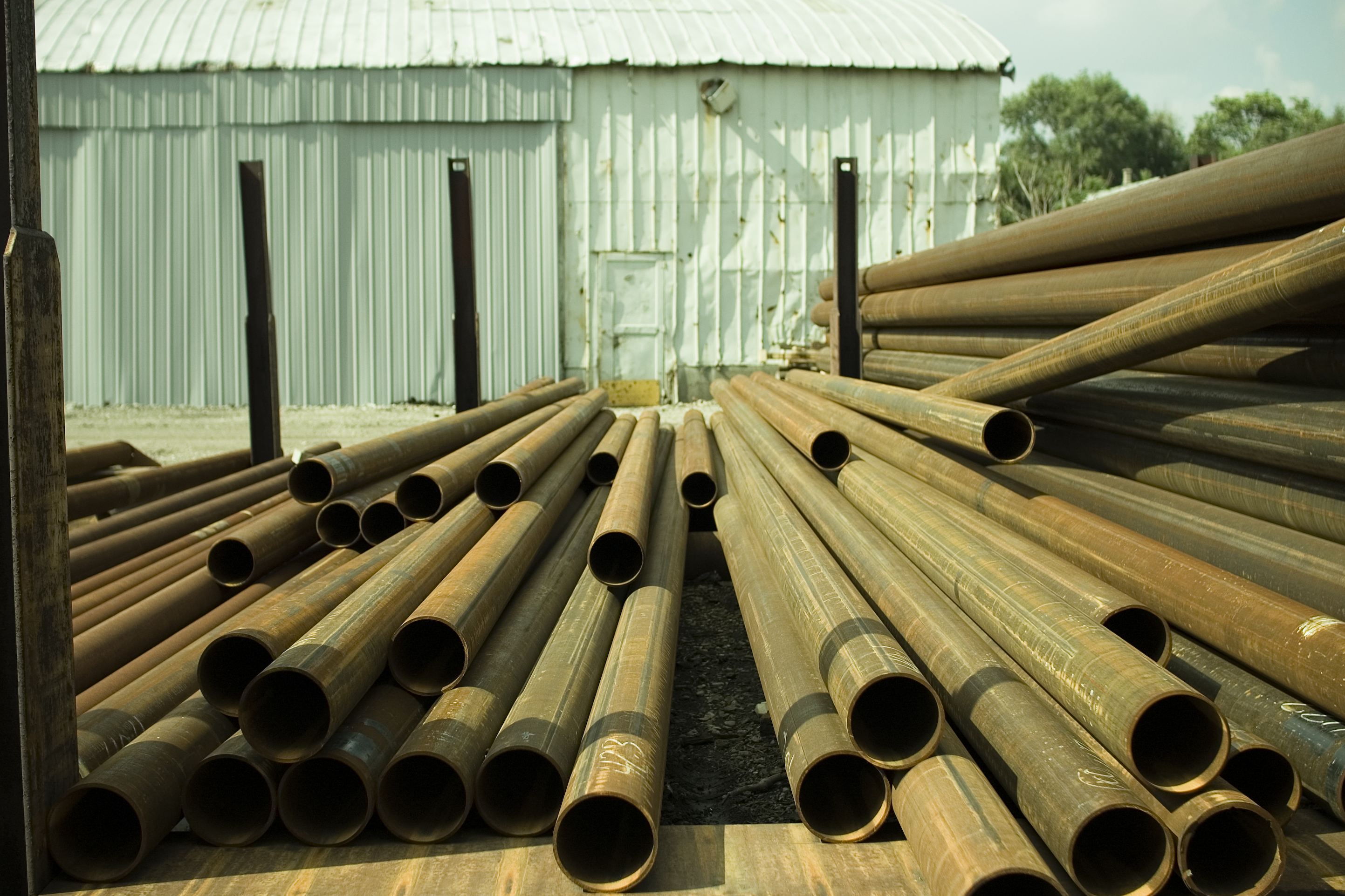 Metal tubes stored in a yard.